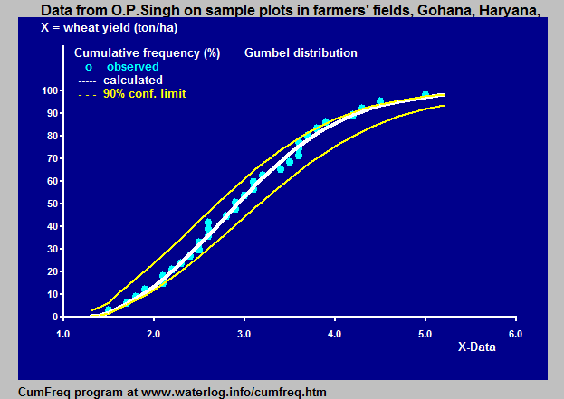 Cumulative frequency and fitted probabilty distribution of wheat yield in farmers' fields, Gohana, Haryana, India